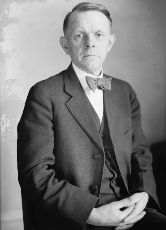 Portrait of U.S. Representative from Alabama George Huddleston (November 11, 1869 – February 29, 1960). Photograph taken 1921.